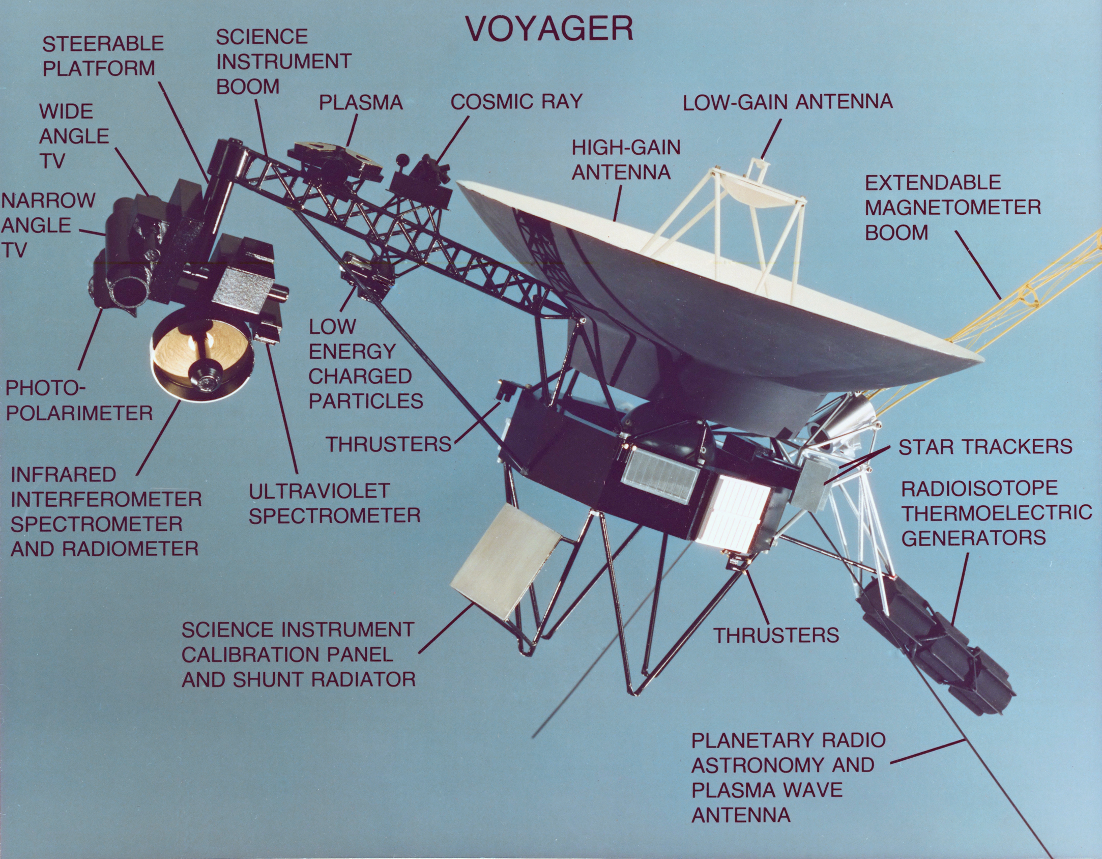 Orginal caption released with the picture: Photographer: N/A Saturn Voyager Mission Artwork with instruments and parts labeled